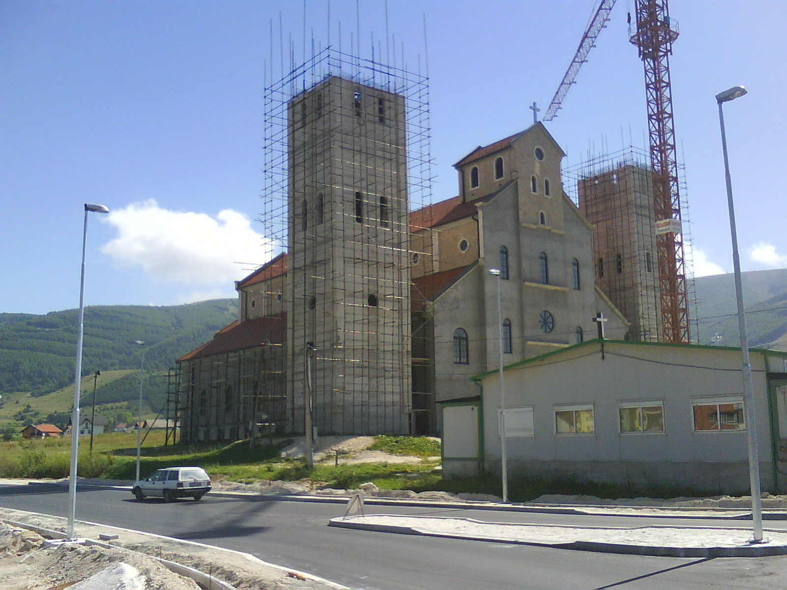 Roman Catholic church of Holy family in Kupres }